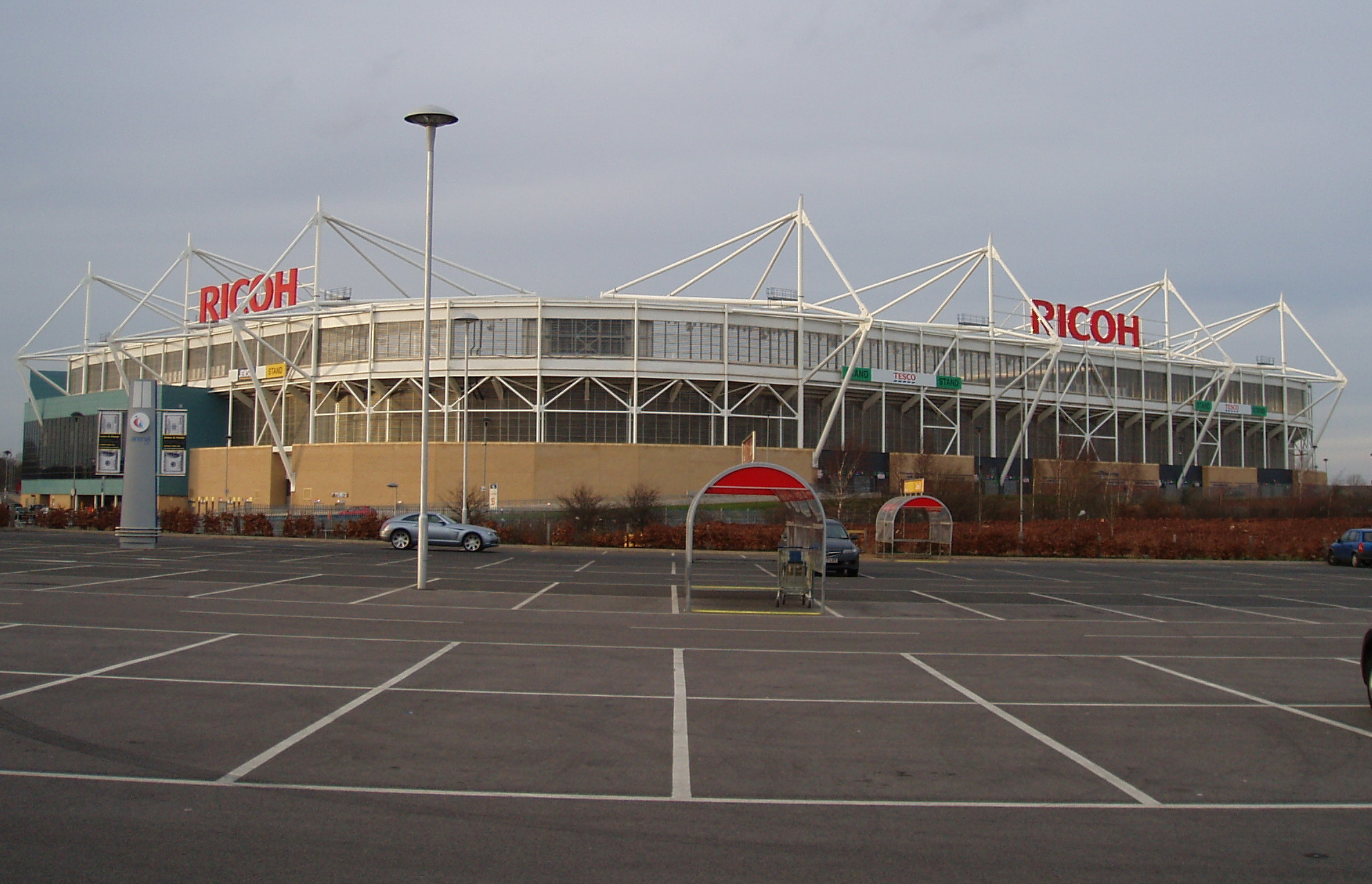 The Ricoh Arena, Coventry, England. Photo taken on 22 January 2008.